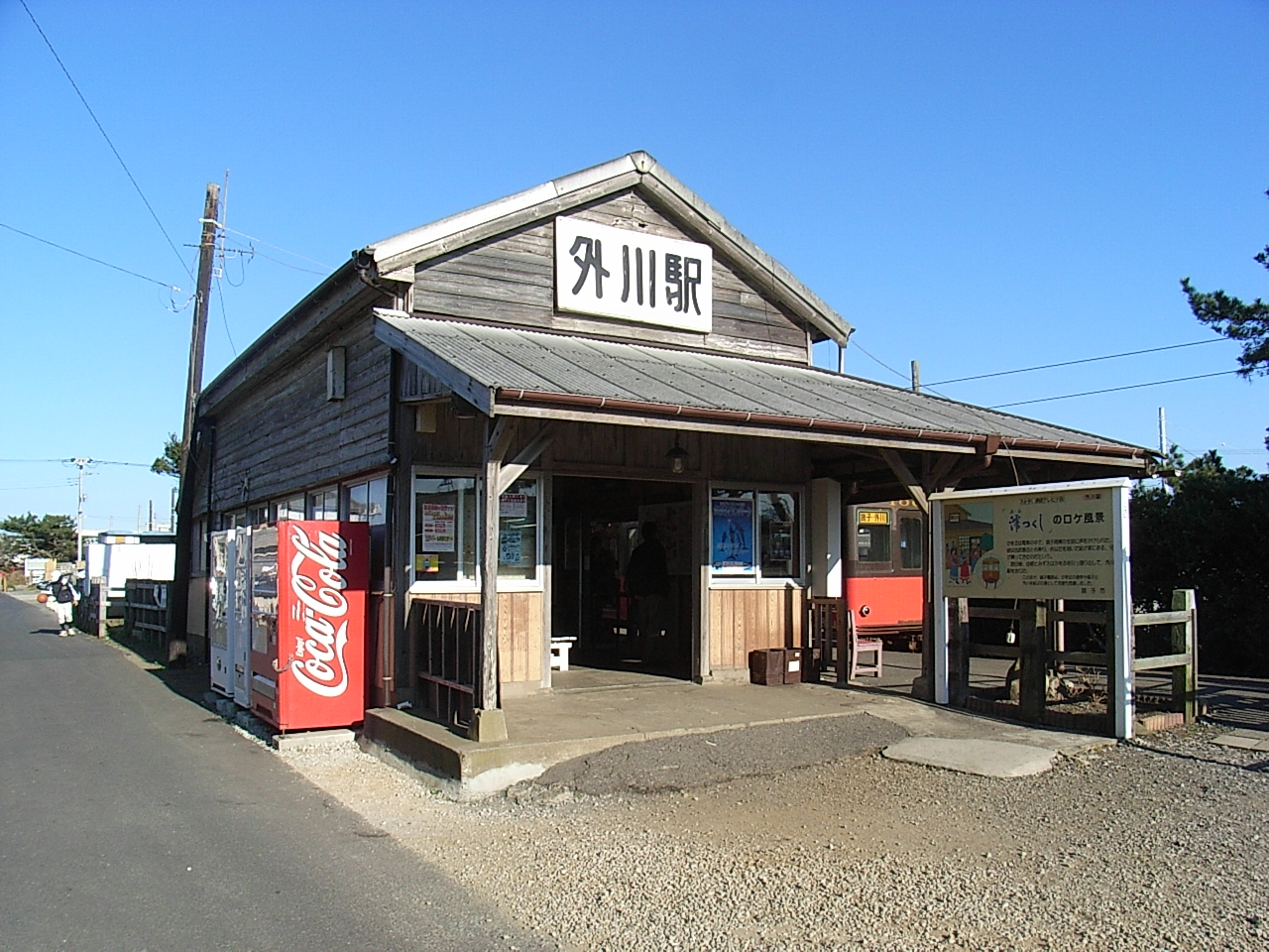 Tokawa Station, the terminus of the Choshi Electric Railway